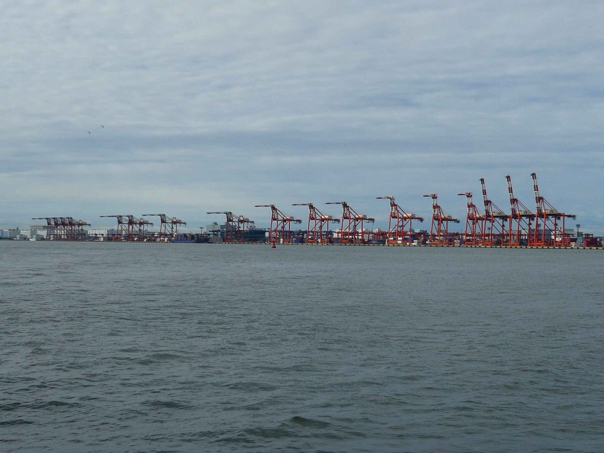 Tokyo Bay Gantry Crane in Shinagawa-ku, Tokyo, Japan.